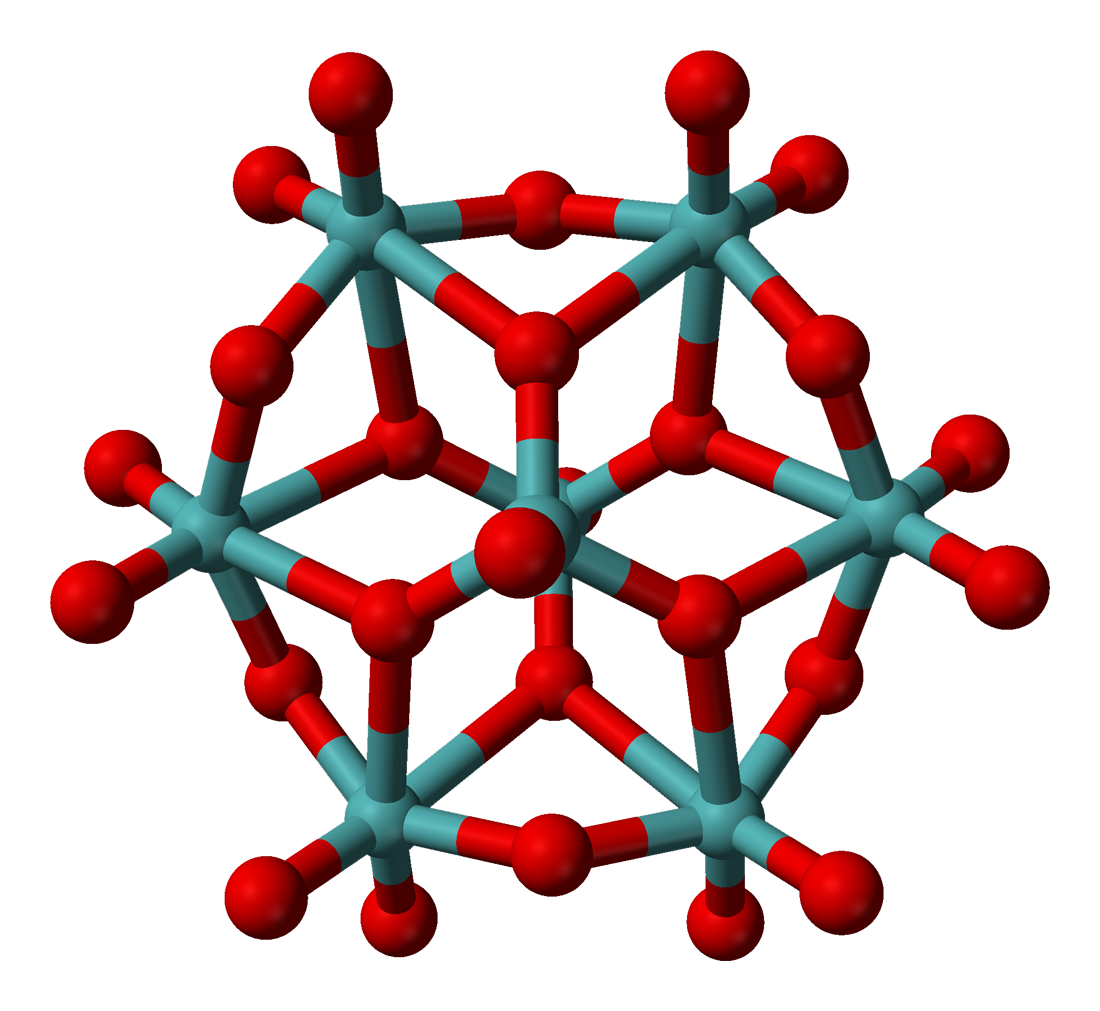 Ball-and-stick model of the α-octamolybdate anion, [Mo6O26]4−, as found in the crystal structure of bis[2,2'-(butane-1,4-diyl)bis(1H-benzimidazolium)] α-octamolybdate(VI), (C18H20N4)2[α-Mo8O26]. X-ray crystallographic data from Acta Cryst. (2007). E63, m584-m586. Model constructed in CrystalMaker 8.1. Image generated in Accelrys DS Visualizer.